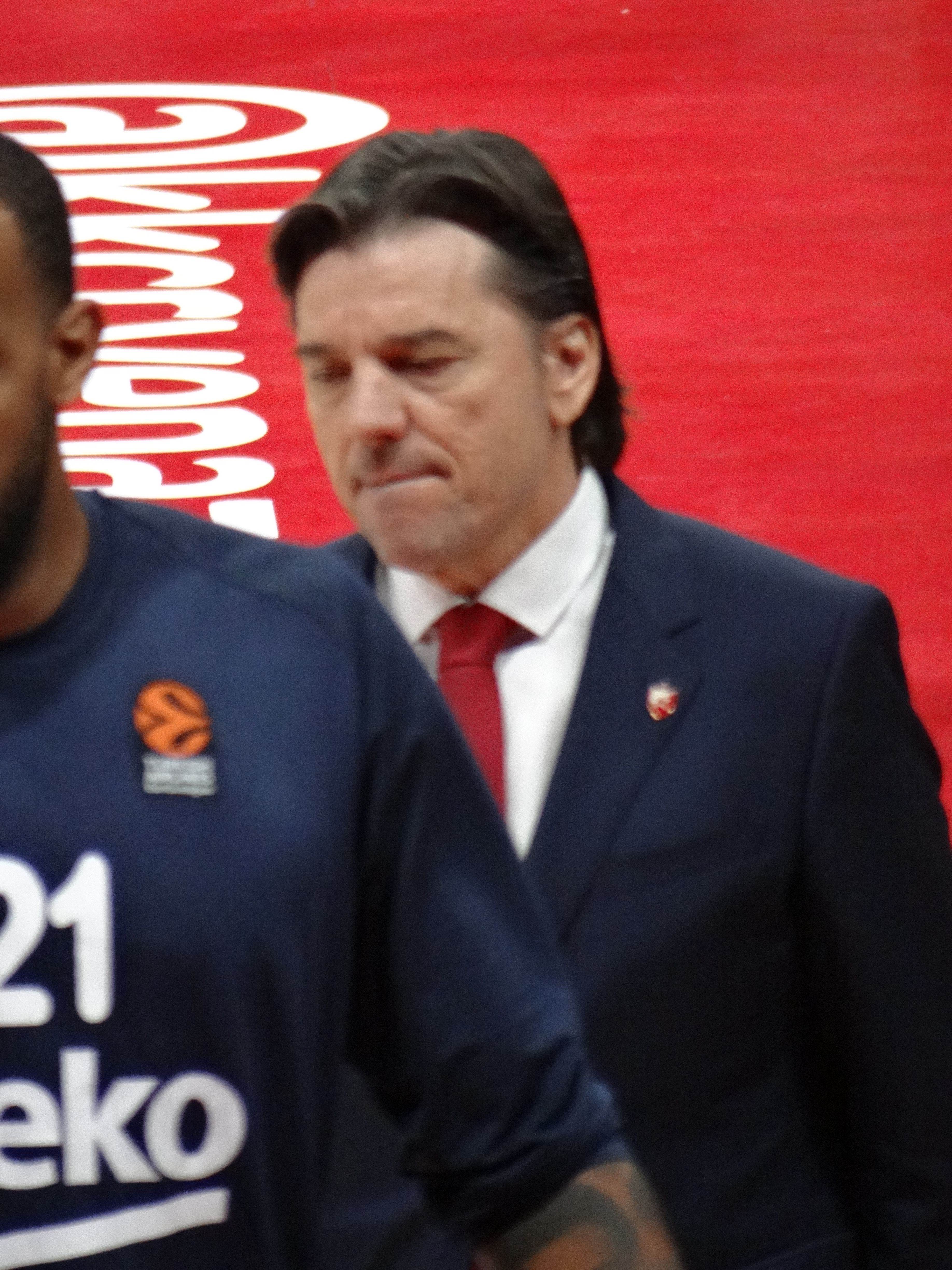 Andrija Gavrilović KK Crvena zvezda EuroLeague 20191010